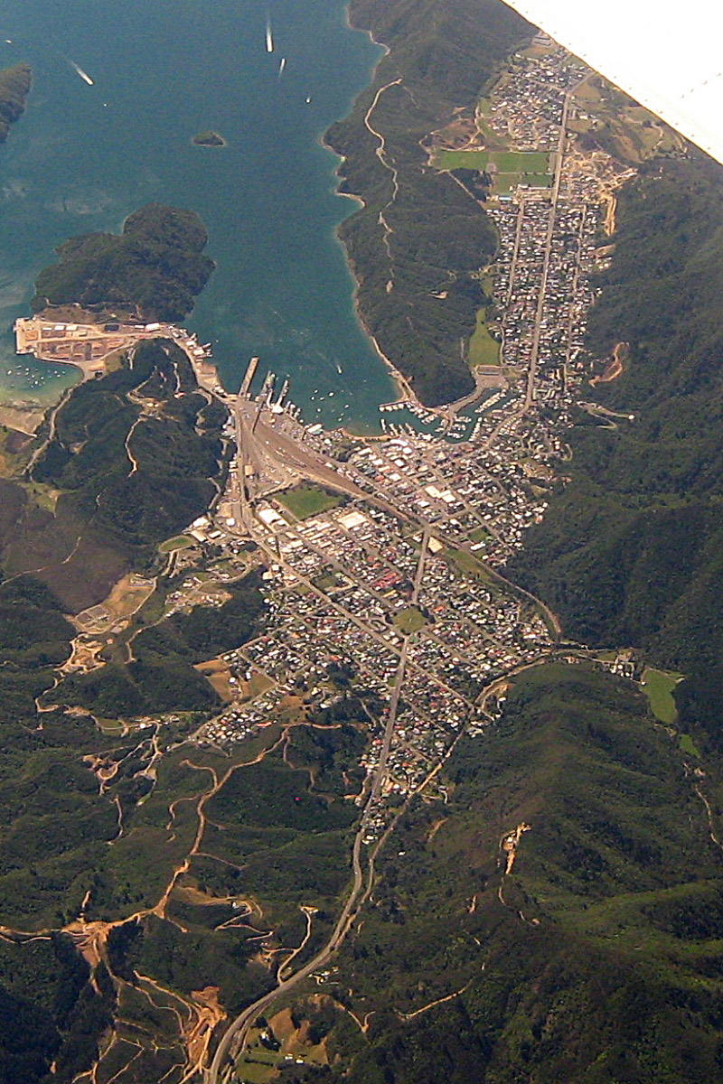 Picton, a small town in the Marlborough Sounds, New Zealand. Its main importance is being the South Island rail / road terminals for the ferries linking to Wellington in the North Island. Seen from the southwest during a flight between Westport and Wellington.